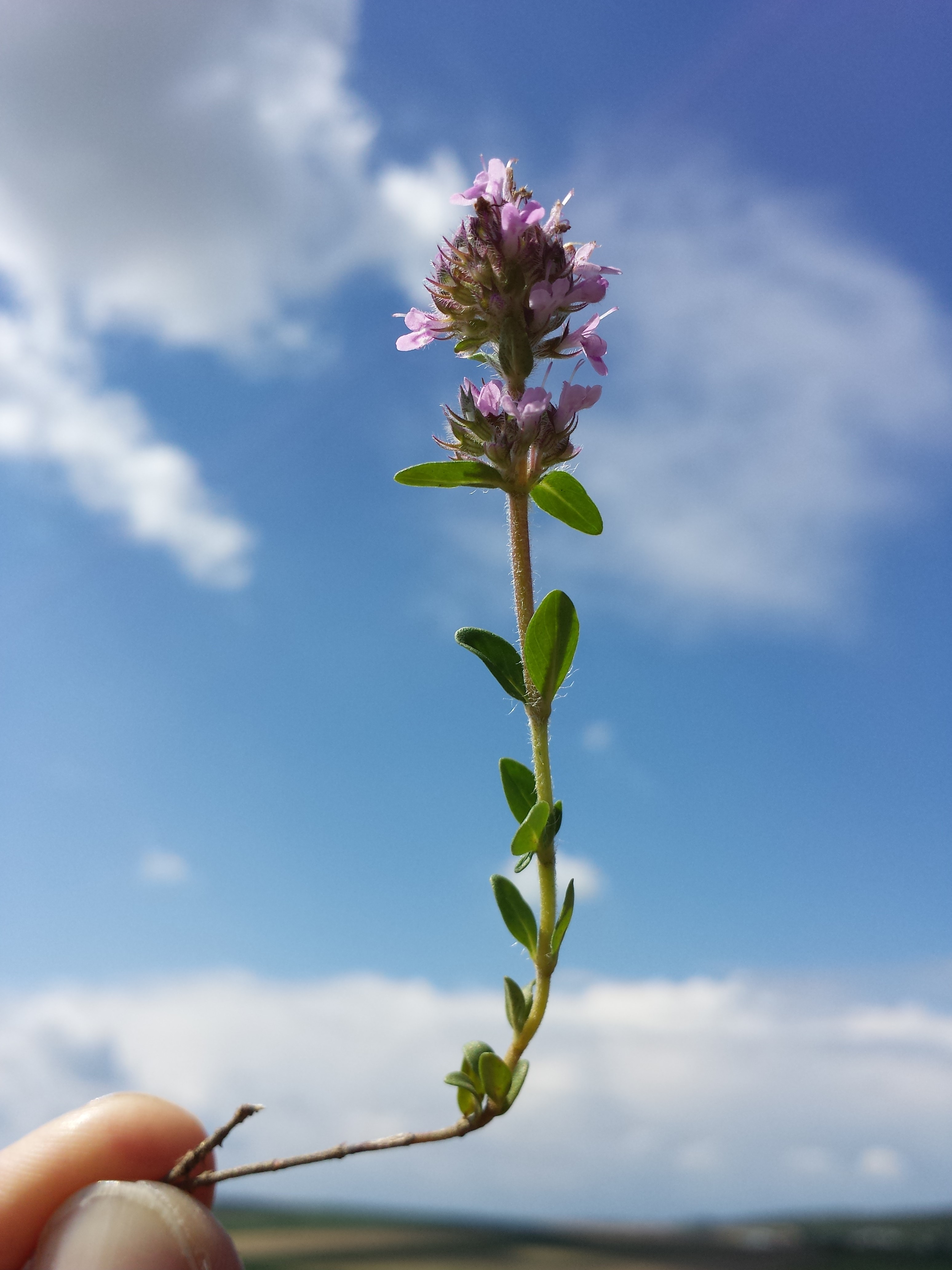 Habitus Taxonym: Thymus odoratissimus (cf., to Thymus pannonicus agg.) ss Fischer et al. EfÖLS 2008 ISBN 978-3-85474-187-9 Location: "In der Hölle" near Wetzleinsdorf, district Korneuburg, Lower Austria - ca. 250 m a.s.l. Habitat: dry grassland